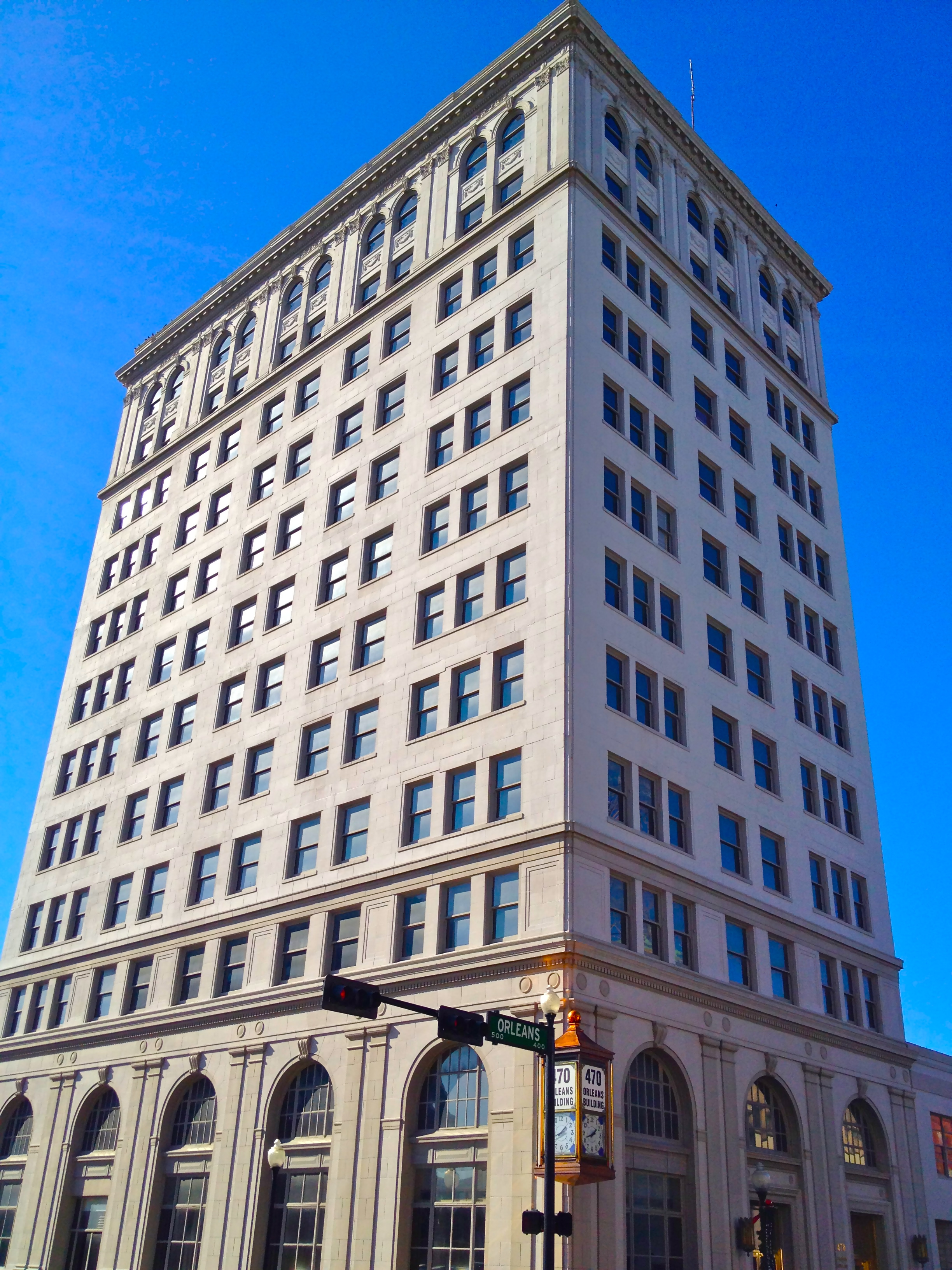 The Orleans Building in Beaumont, Texas. Built: 1925